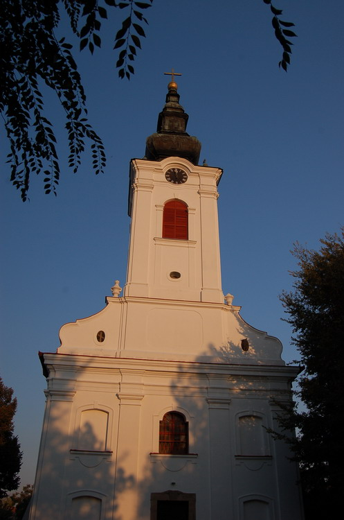 Vavedenska church in Zrenjanin, built in 1777